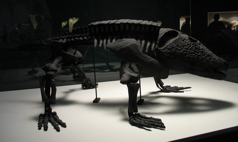 Mounted skeleton of Kamacops acervalis